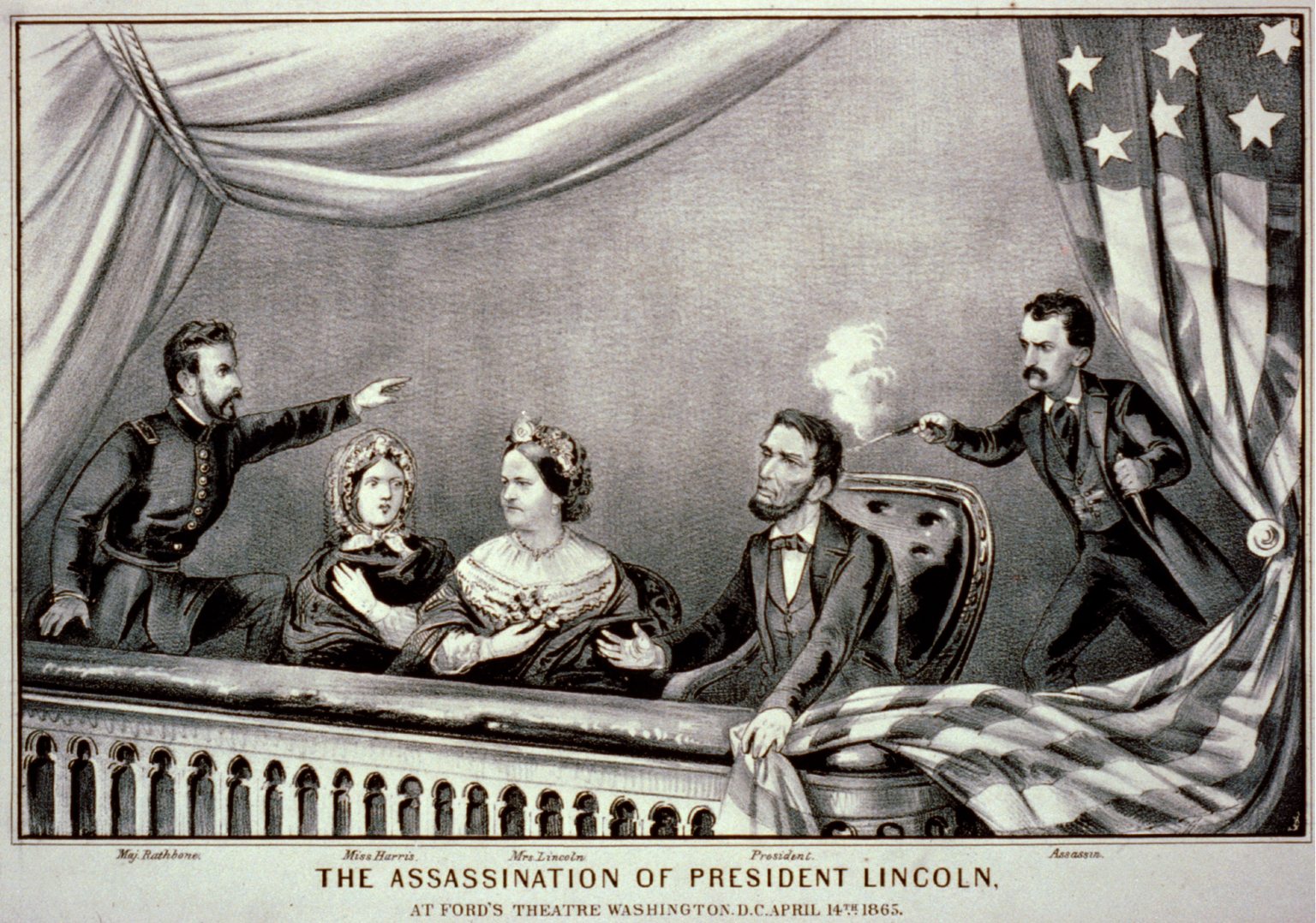 Lithograph of the Assassination of Abraham Lincoln. From left to right: Henry Rathbone, Clara Harris, Mary Todd Lincoln, Abraham Lincoln, and John Wilkes Booth. Rathbone is depicted as spotting Booth before he shot Lincoln and trying to stop him as Booth fired his weapon. Rathbone actually was unaware of Booth’s approach, and reacted after the shot was fired. While Lincoln is depicted clutching the flag after being shot, it is also possible that he just simply pushed the flag aside to watch the performance.